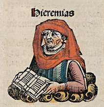 The prophet Jeremiah. Woodcut from the Nuremberg Chronicle